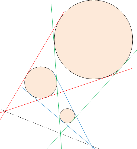 Monge's theorem on circles